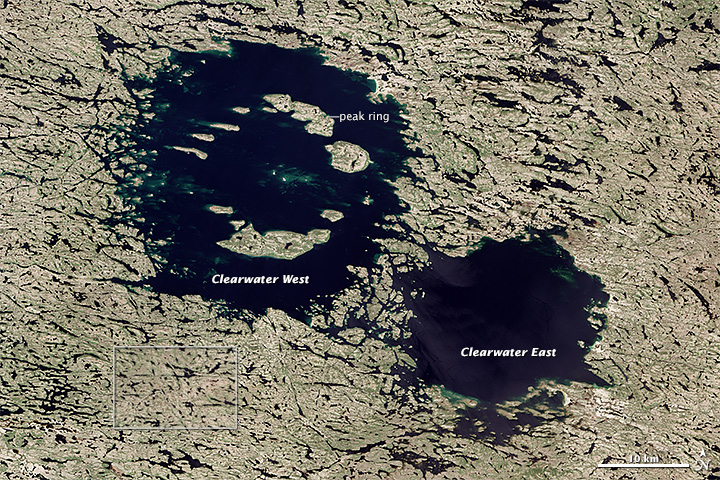 About 290 million years ago, two large asteroids smashed into Earth. The massive craters they left behind—now lakes—are still visible from space. Astronauts have noticed and photographed the craters for decades, and the Operational Land Imager on Landsat 8 captured a new image of Clearwater Lakes (Lac à l‘Eau Claire) on June 29, 2013. The small inset box toward the lower left marks the area shown in the lower image. When they struck, the binary asteroids crashed into a part of Earth’s crust that was fairly close to the equator. Since then, millions of years of plate tectonics have pushed the craters north into what is now northwestern Quebec. A mere 20,000 years ago (not long from a geologic perspective), massive sheets of ice covered northwestern Quebec, much like ice now covers Antarctica and Greenland. During that period, ice sheets repeatedly advanced and retreated, scouring the land of soil and rock during cool periods, and then carving deep channels and rinsing the landscape with melt water during warmer periods.